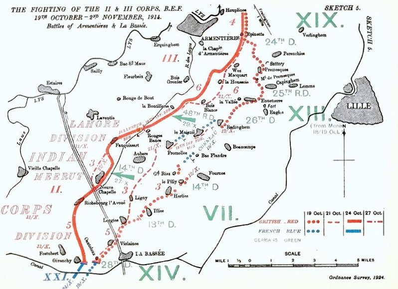 Situation map of the area from La Bassée to Armentières, 19 October – 2 November 1914